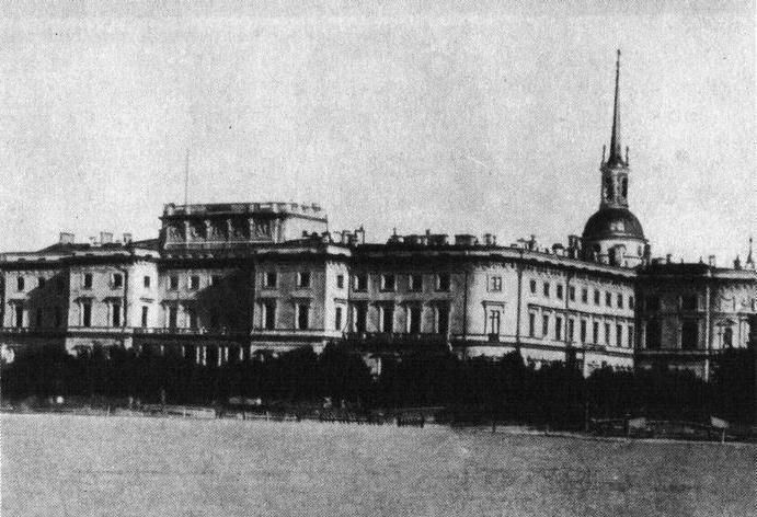 The Nikolayev Military Engineering Institute